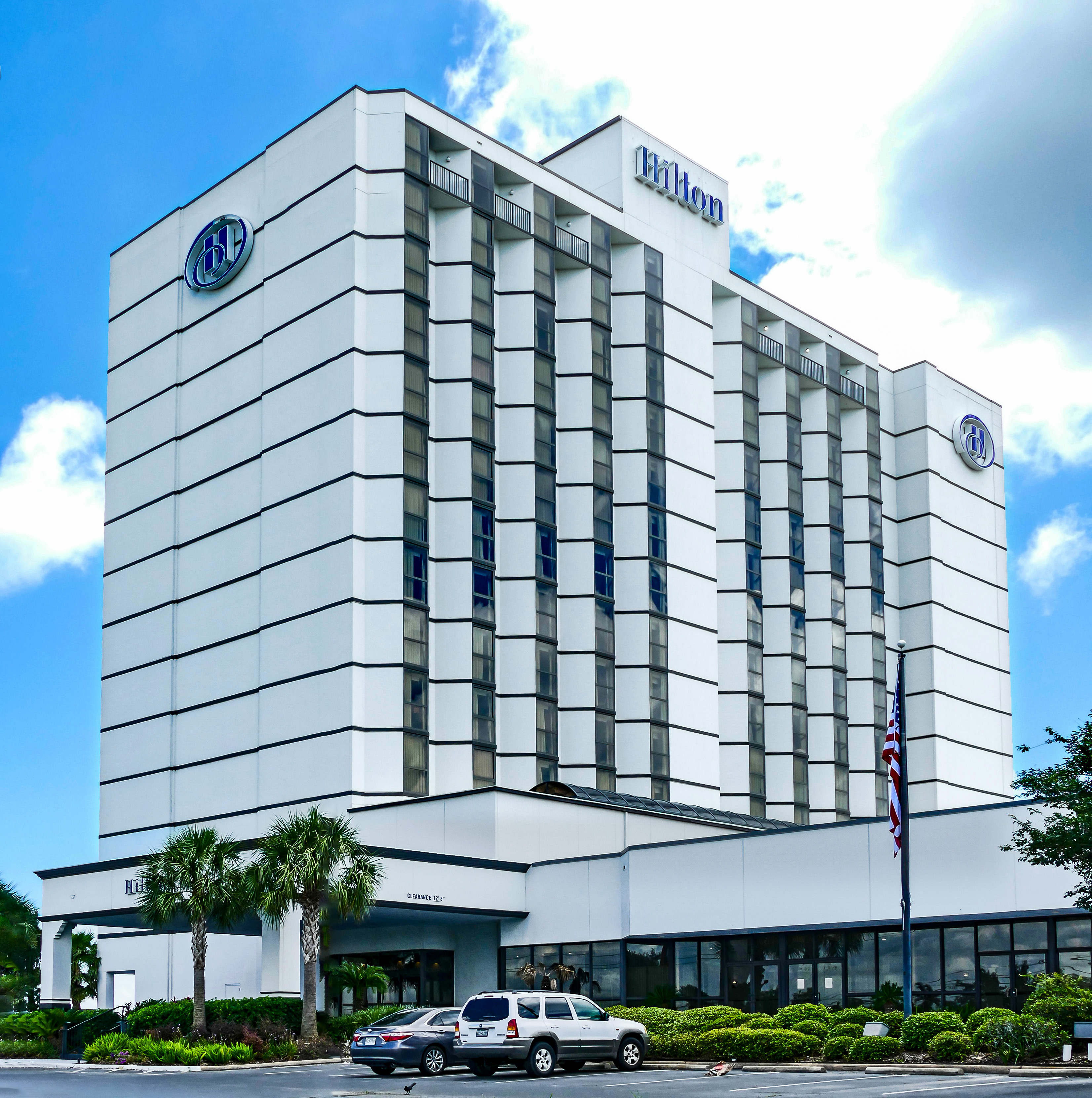 Hilton Hotel -- Nassau Bay, Texas